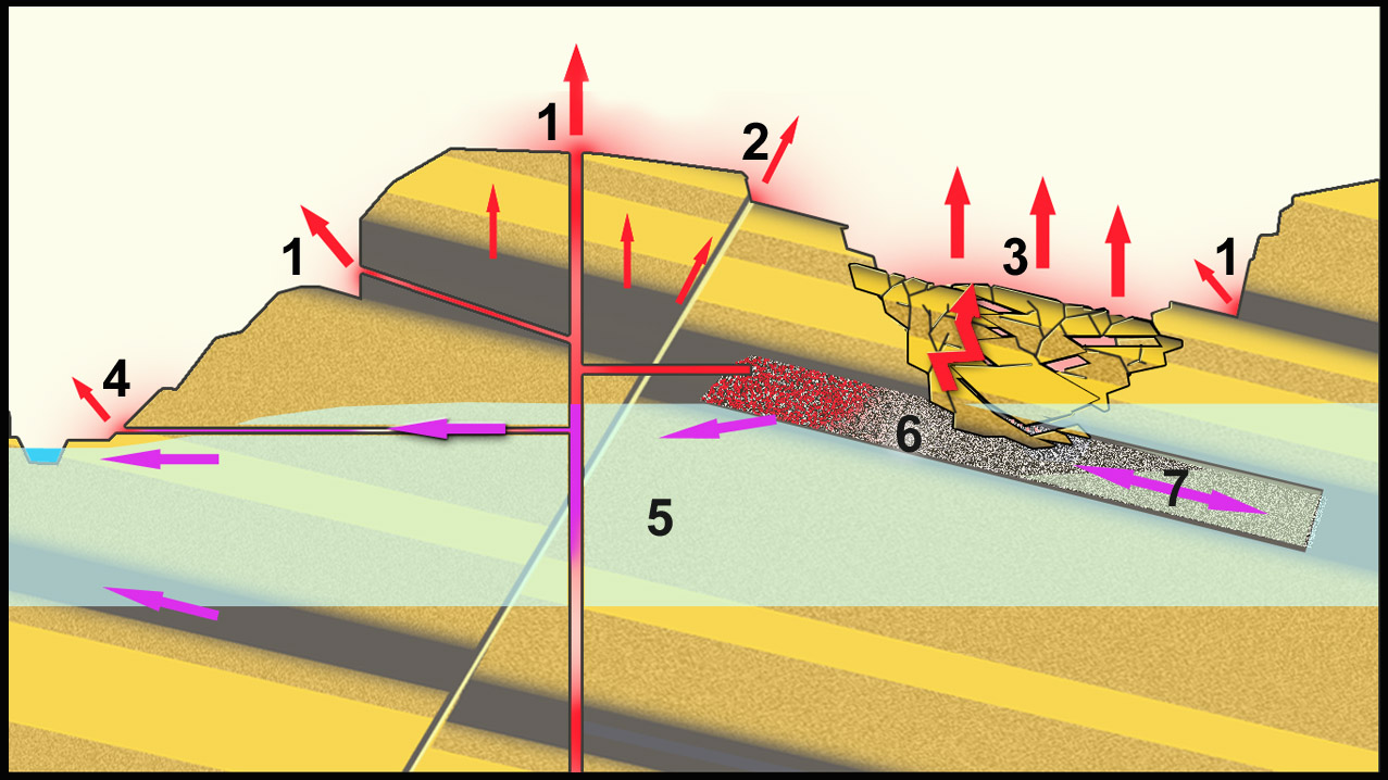 System "Mine-coal-water-gas and link with surface / " with fractures and faults, more or less permeable covering strata and Water drainage or seepag.